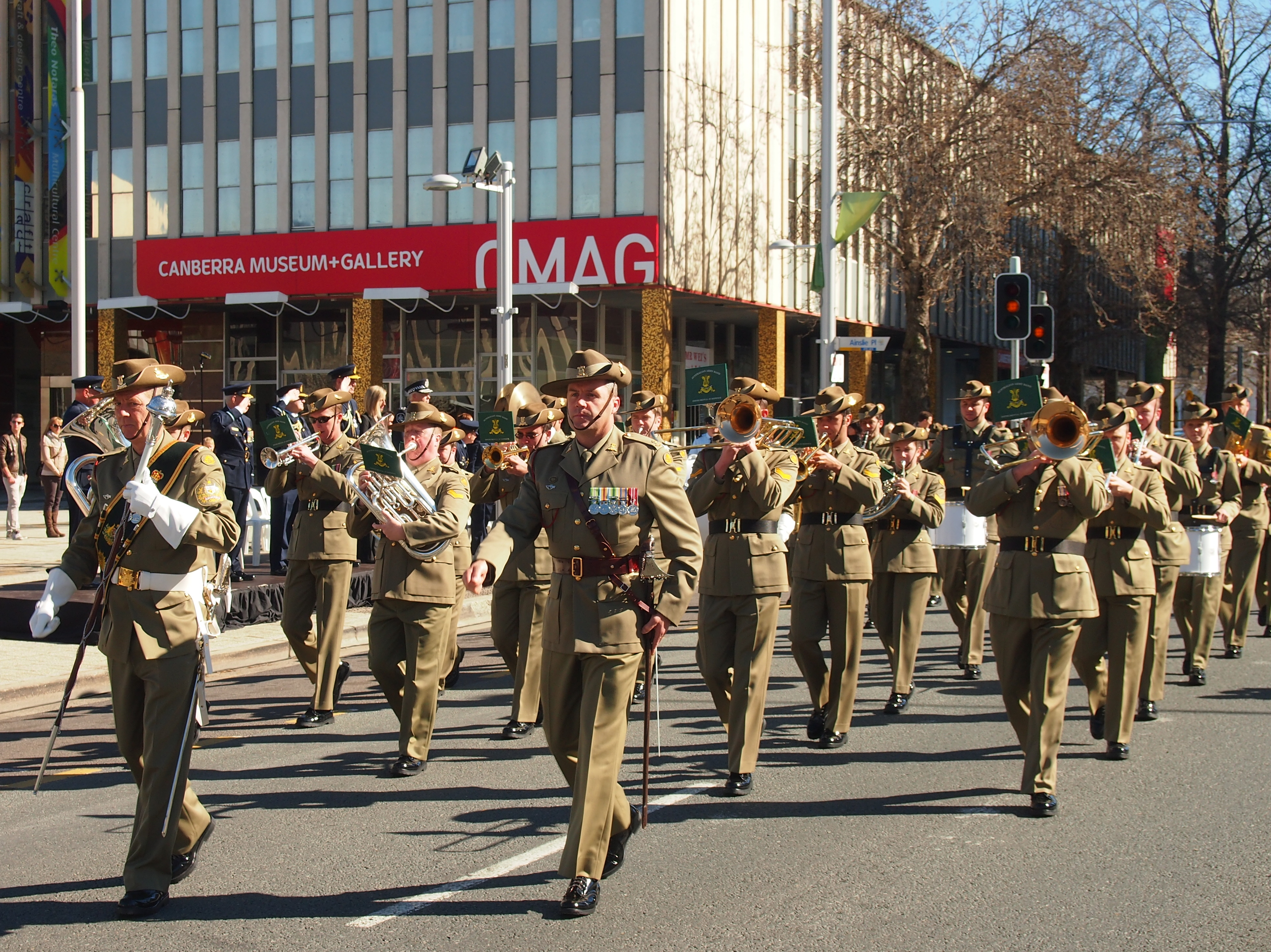 Members of an Australian Army band pass by Civic Square during No. 28 Squadron RAAF's Freedom of the City parade in August 2013